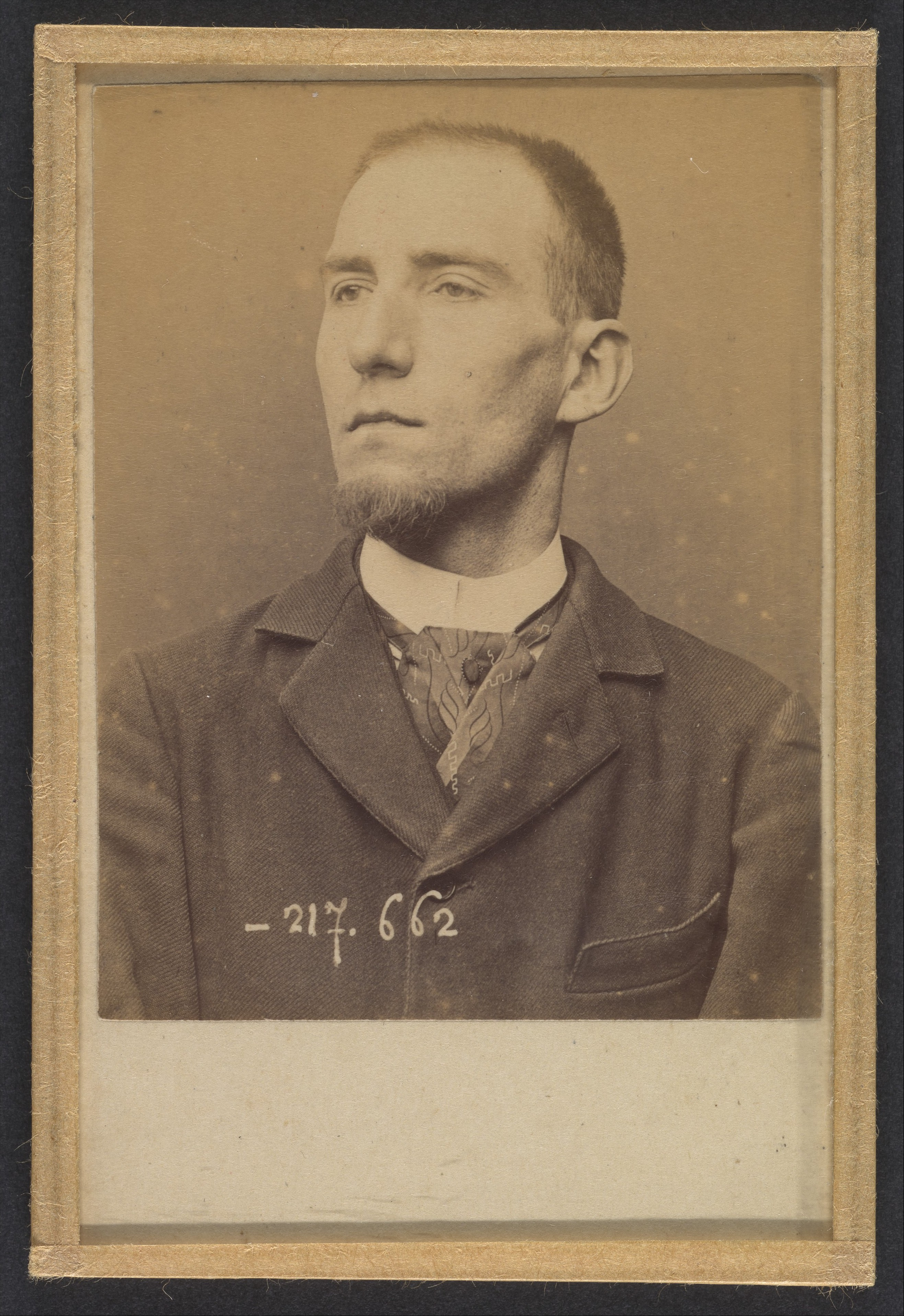 Mugshot; Photographs